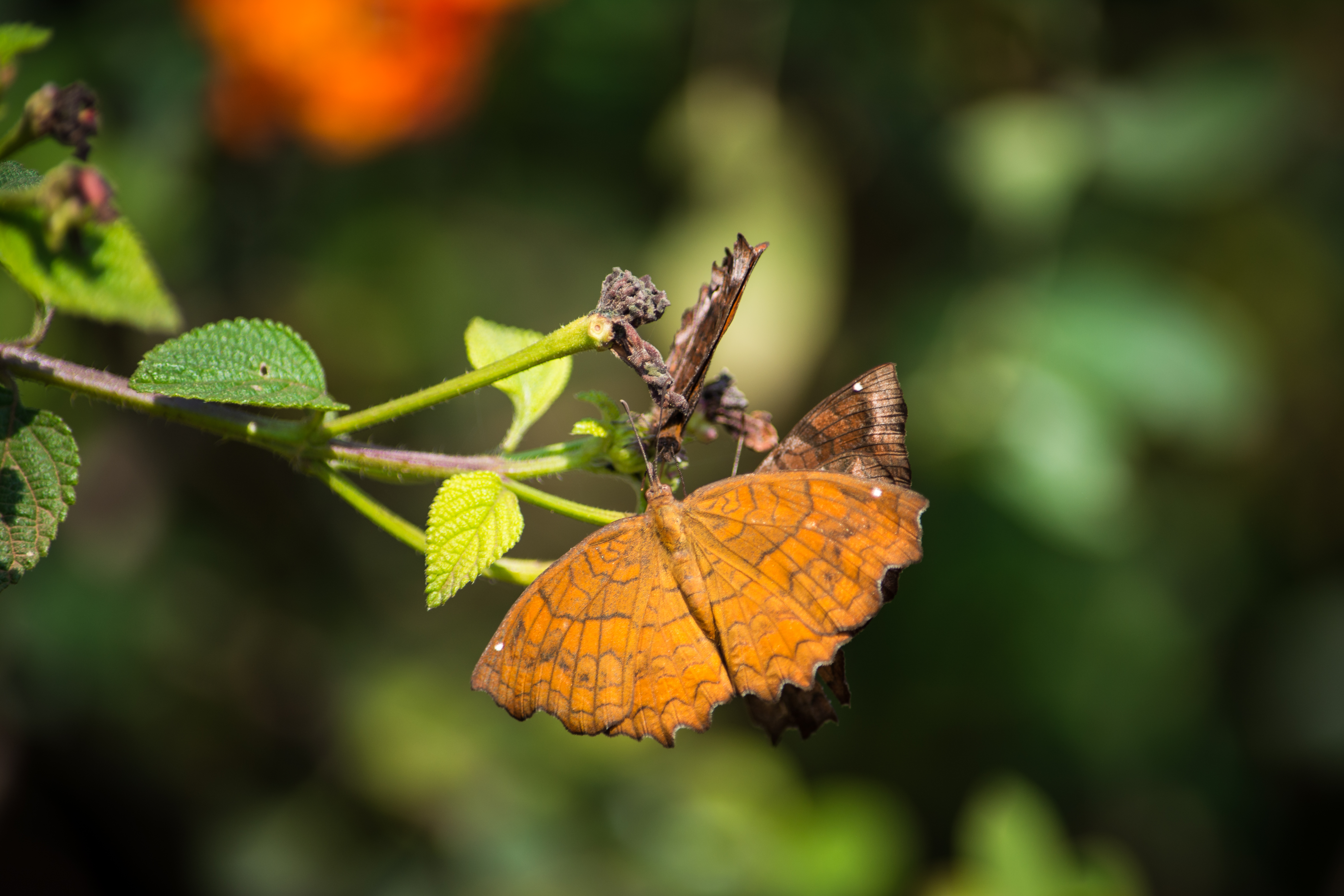 Picture of angled castor butterfly